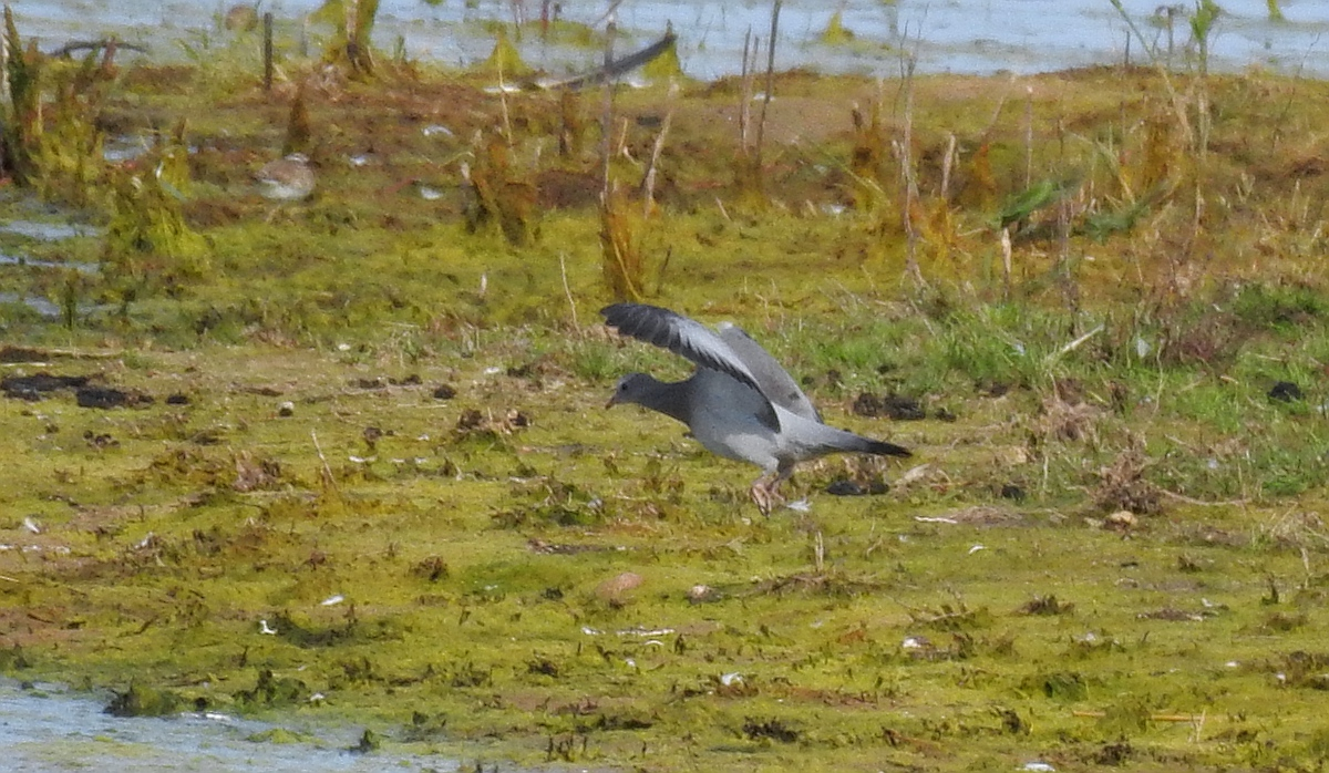 Scientific name: Columba oenas Original file: DSCN3410-new2